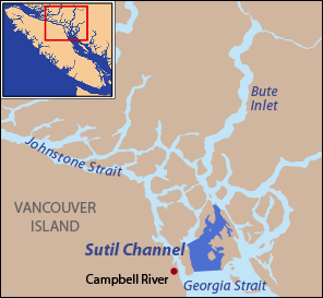 This is a locator map of Sutil Channel. I, Pfly, made it with ArcGIS, Adobe Illustrator, and Adobe Photoshop. The coastline data is from the Digital Chart of the World.